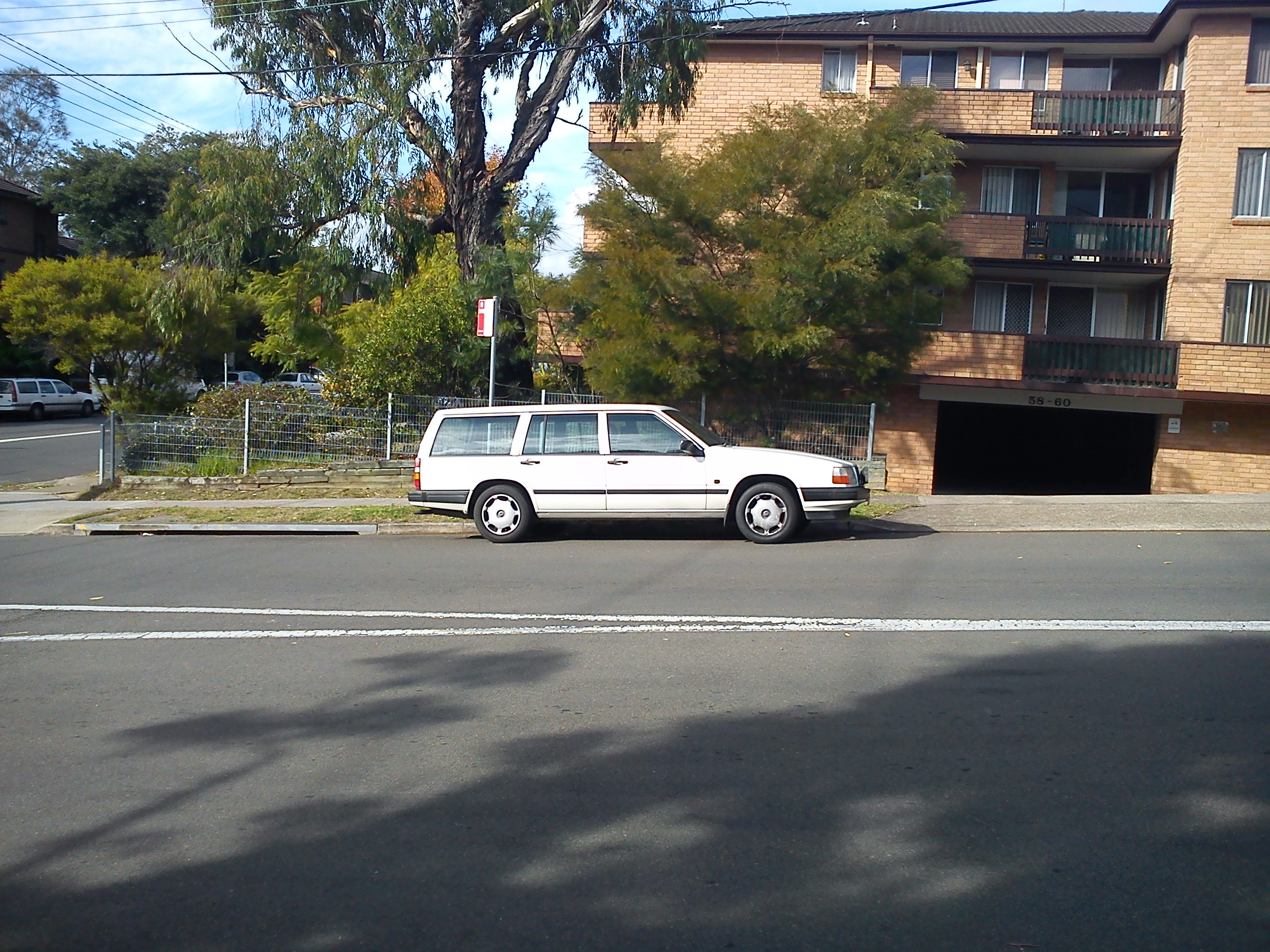 Apartment building in Sydney.